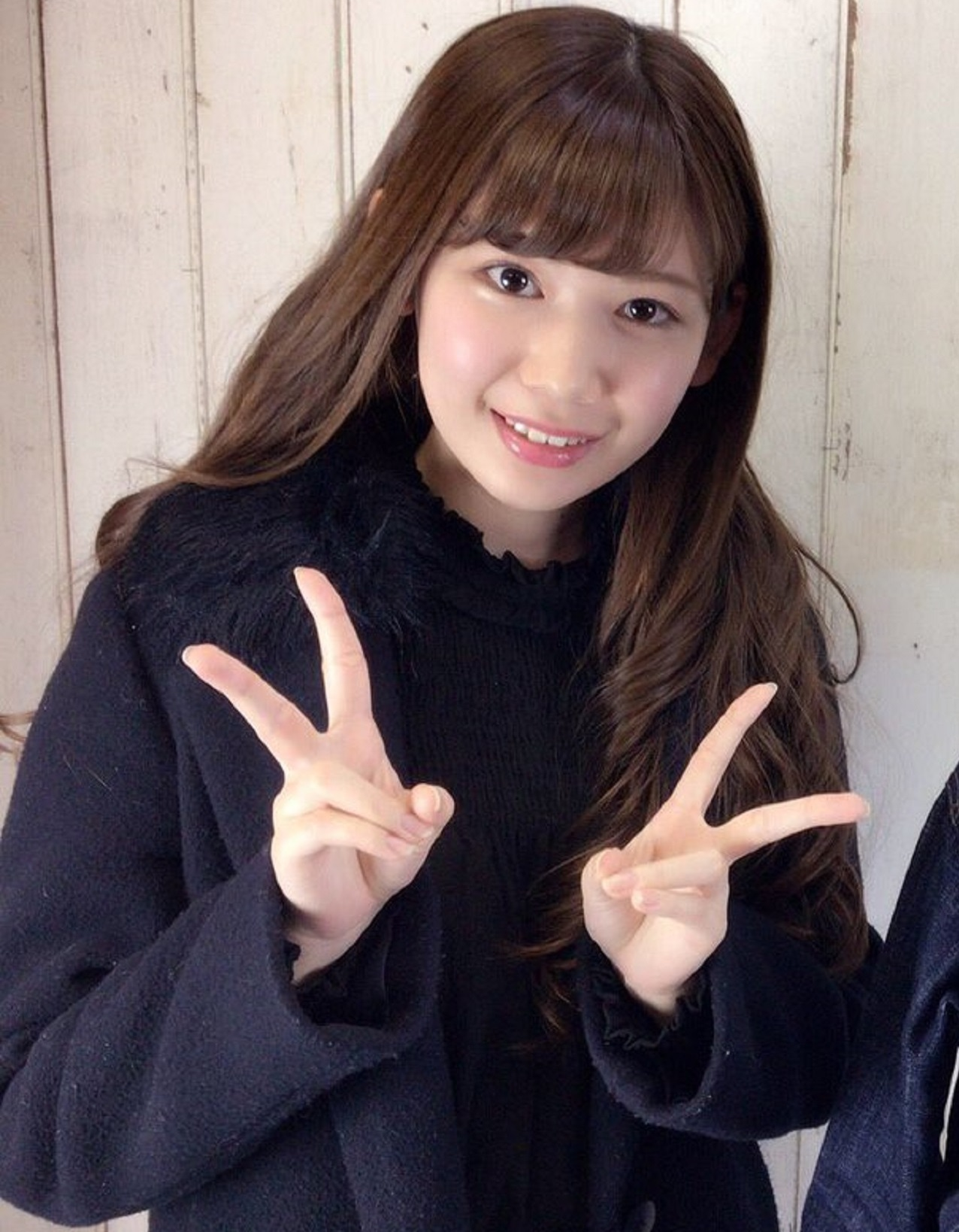 明里紬曾在《DMM成人獎2018》中獲得「特別主持人獎 - 武井壯獎」 This file was uploaded via Mobile Android App 2.8.3.